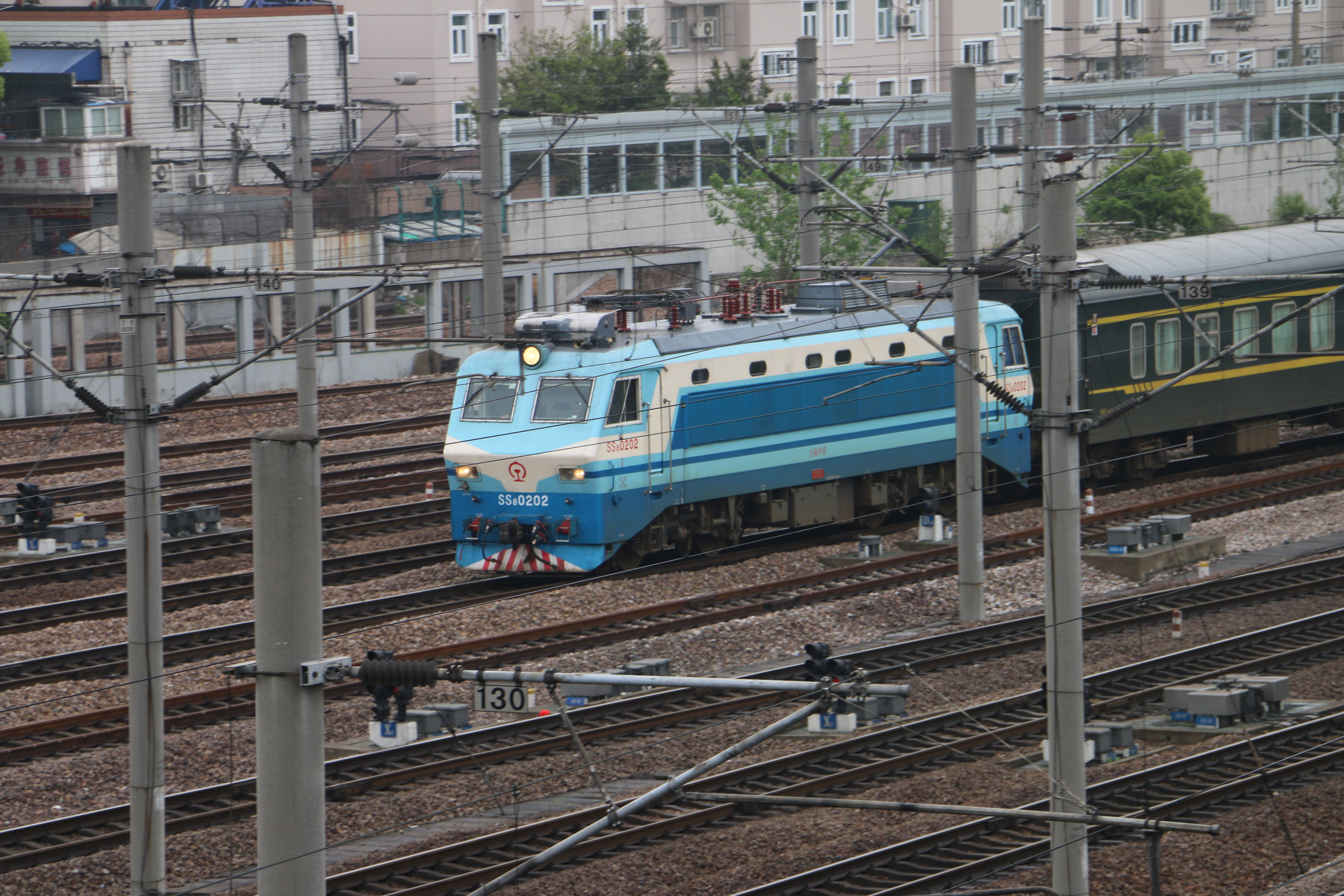 201604 K512 arrived at SNH